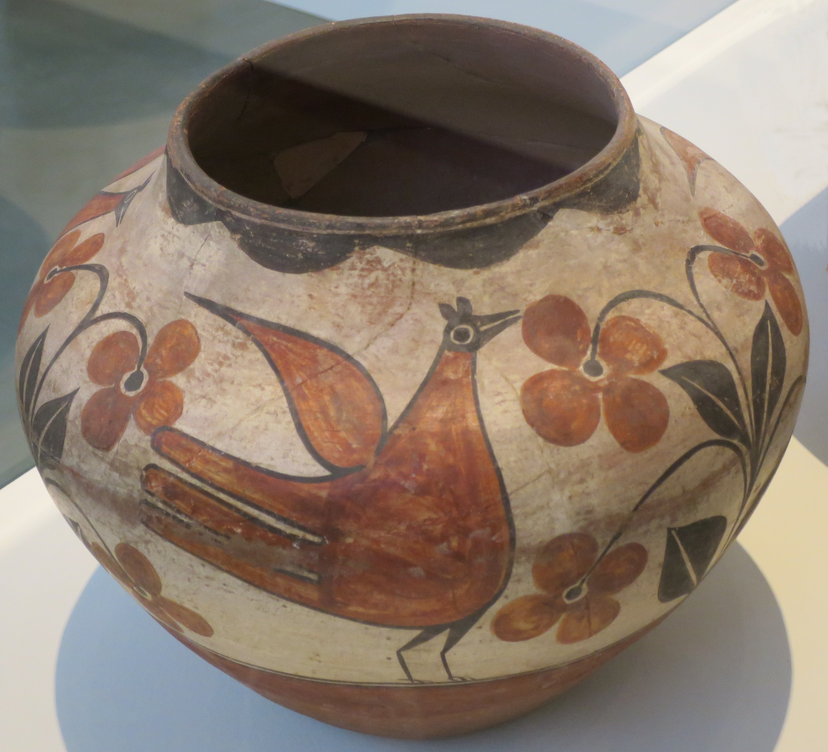 Jar (olla), early 20th century, Zia Pueblo, New Mexico, hand-built clay with black, white and red pigments, Honolulu Museum of Art, accession 2.792